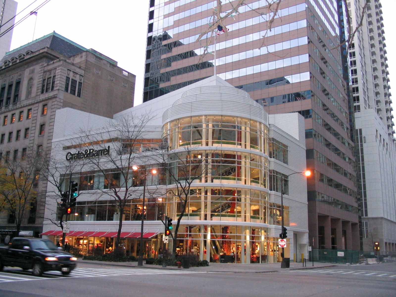 A Crate & Barrel home-and-furniture store at 646 N. Michigan Ave., on the southwest corner of Michigan Avenue and Erie Street, Chicago